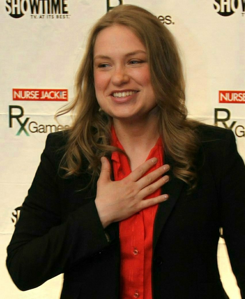 March 18, 2010 at Gotham Hall, NYC.